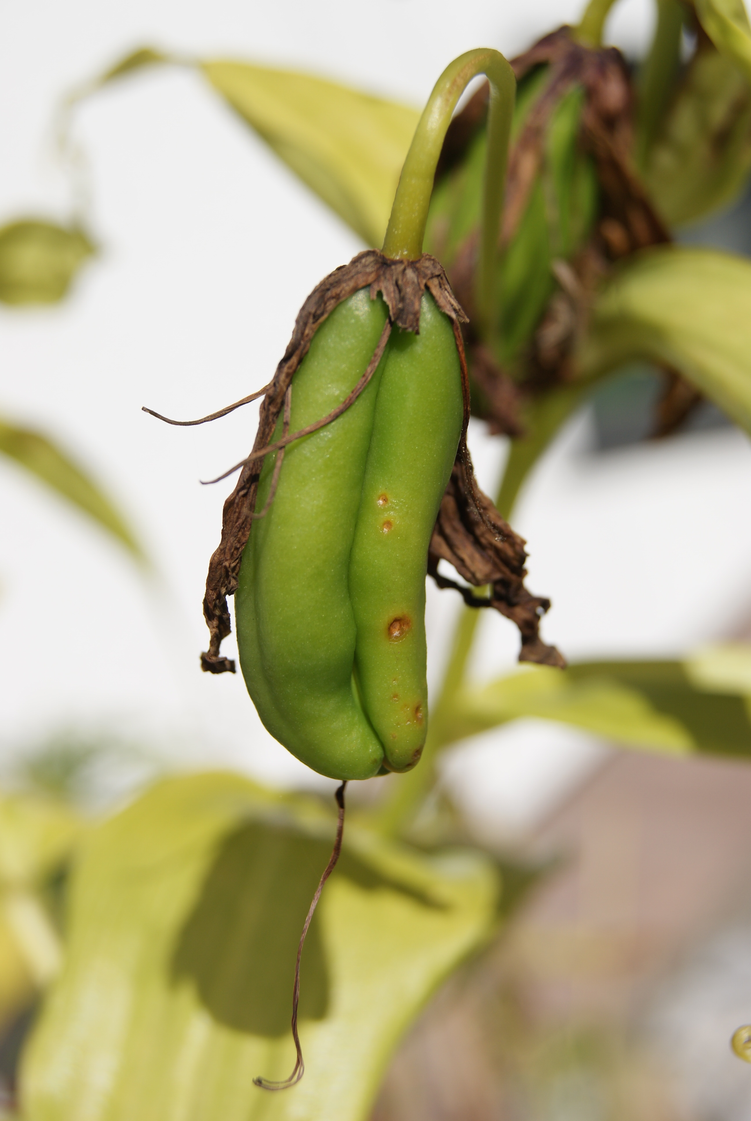 Gloriosa superba